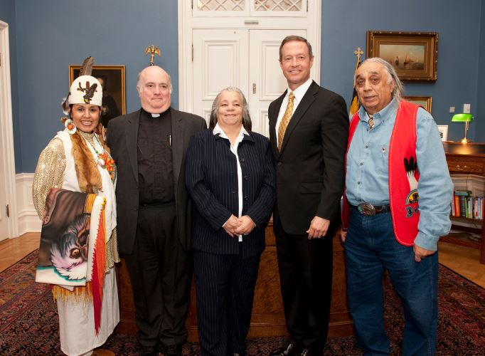 State of Maryland Official Government Photograph of Piscataway Indian Nation and the Piscataway Conoy Tribe officially recognized by Governor Martin O'Malley and State of Maryland in Annapolis on January 9, 2012.